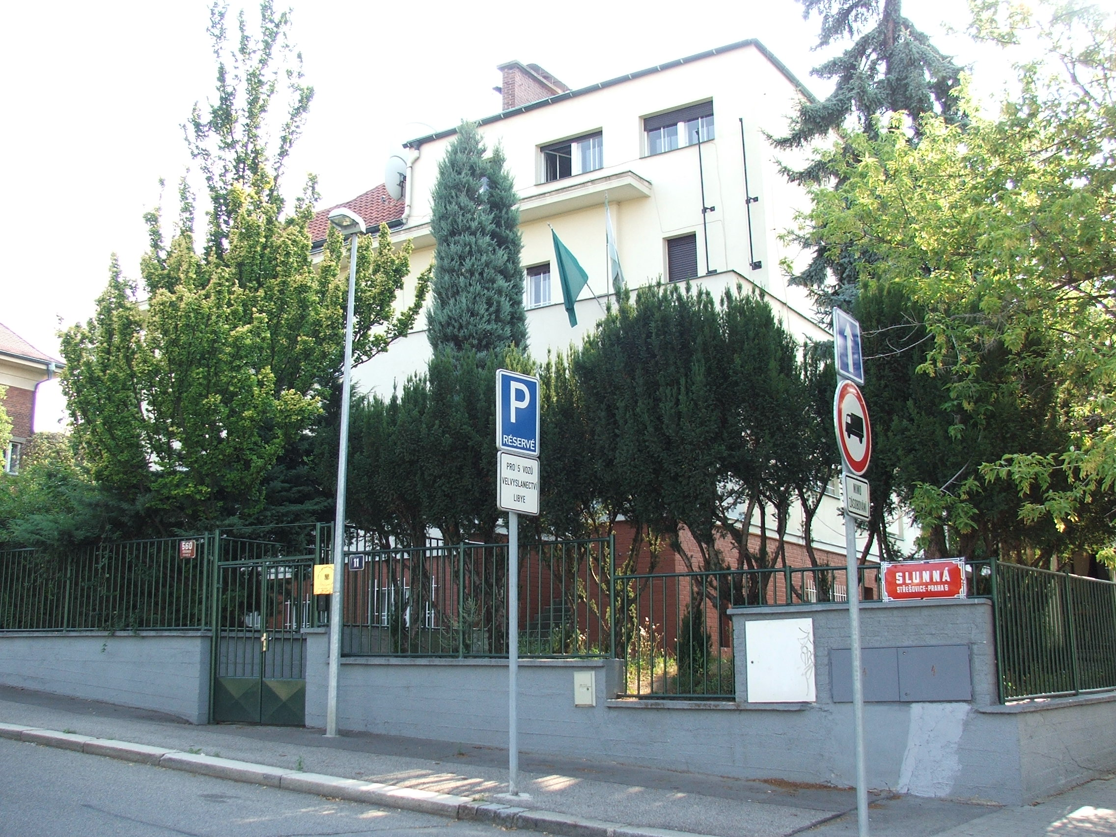 Embassy of Libya in Prague - Střešovice, Czechia. Libyan Embassy recently closed its office in Prague.